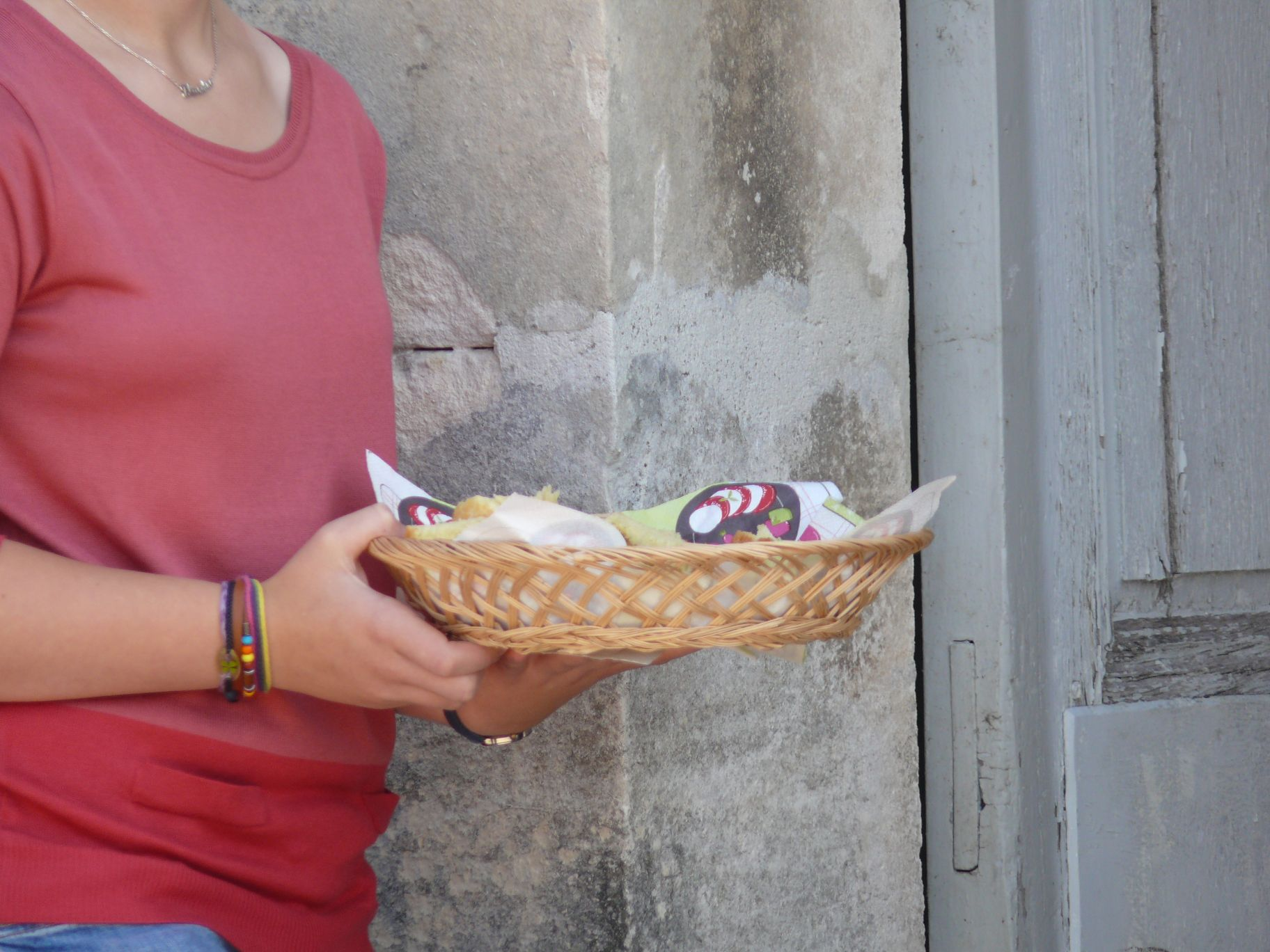 Distribution of holy bread at a mass exit (France).